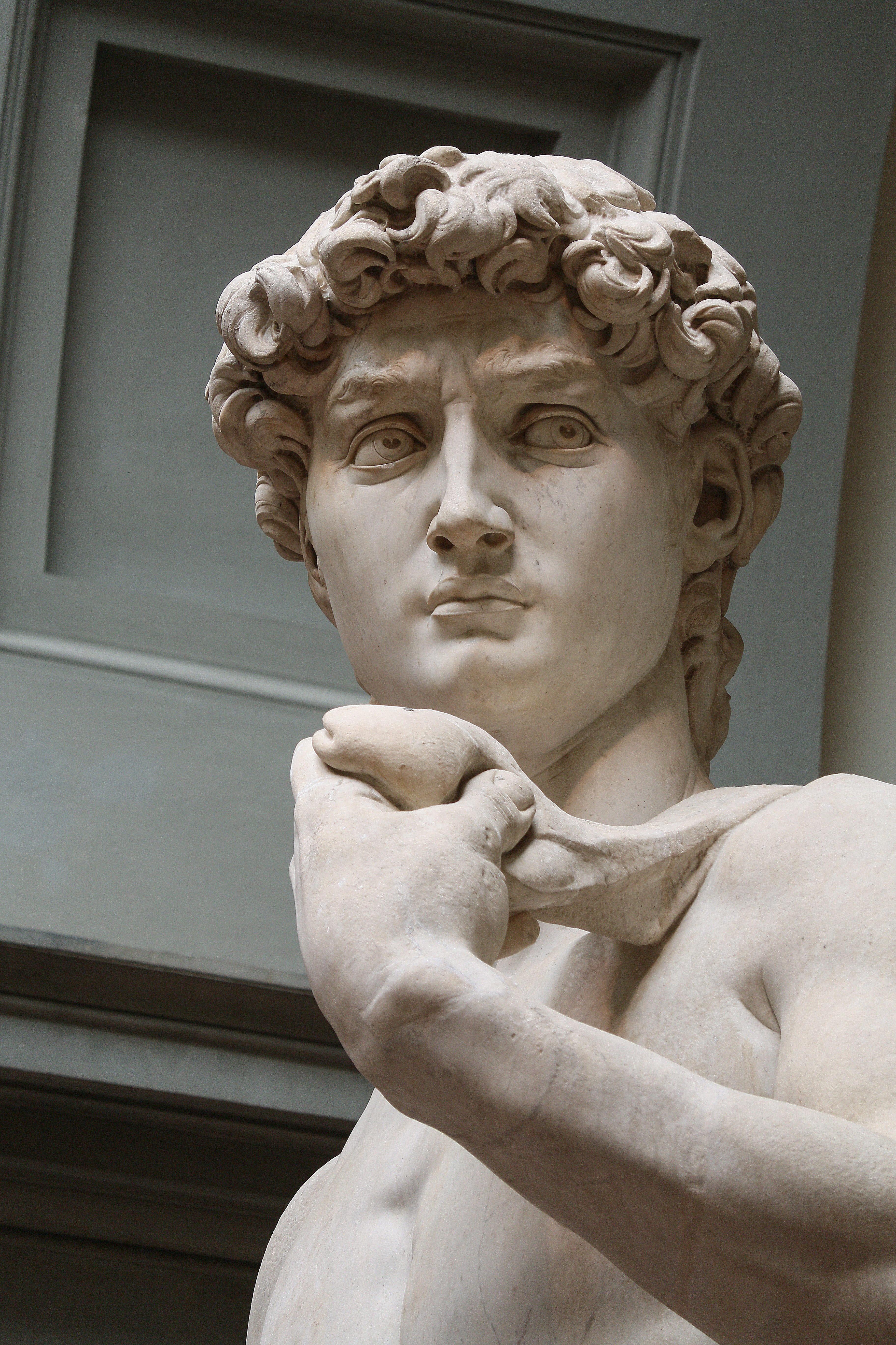 David by Michelangelo (Detail), Florence, Galleria dell'Accademia, 1501-1504